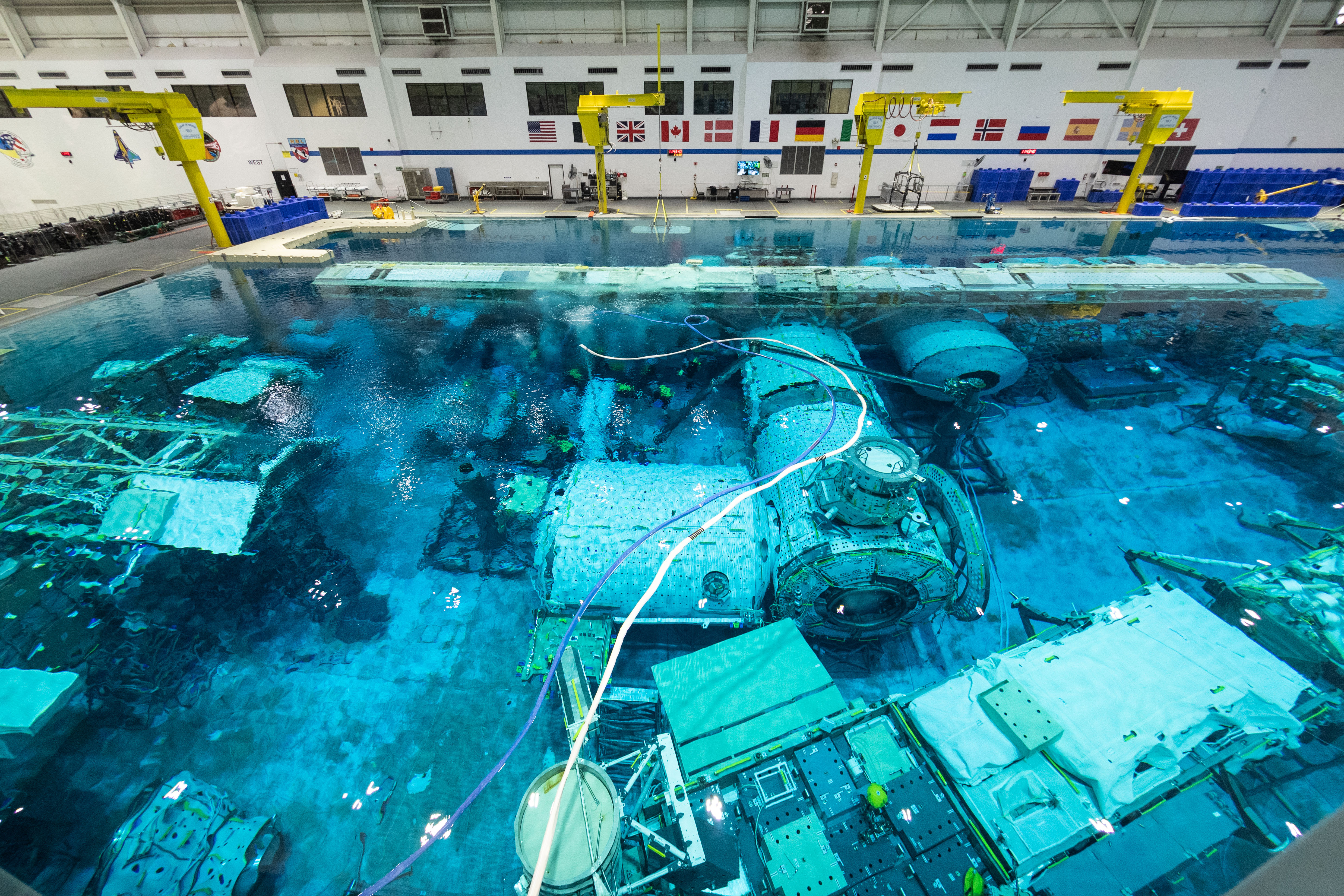 In collaboration with NASA’s Goddard Space Flight Center, NASA’s Johnson Space Center in Houston, Texas hosted the second NASA Commercialization Training Camp on Feb. 12-14 in partnership with the NFL Players Association. Through presentations, tours, panels and one-on-one conversations, the training camp introduced current and former professional football players to NASA technology, explaining how athletes could infuse NASA innovations into an existing business or new startup idea. Credit: NASA/Johnson Space Center/Bill Stafford